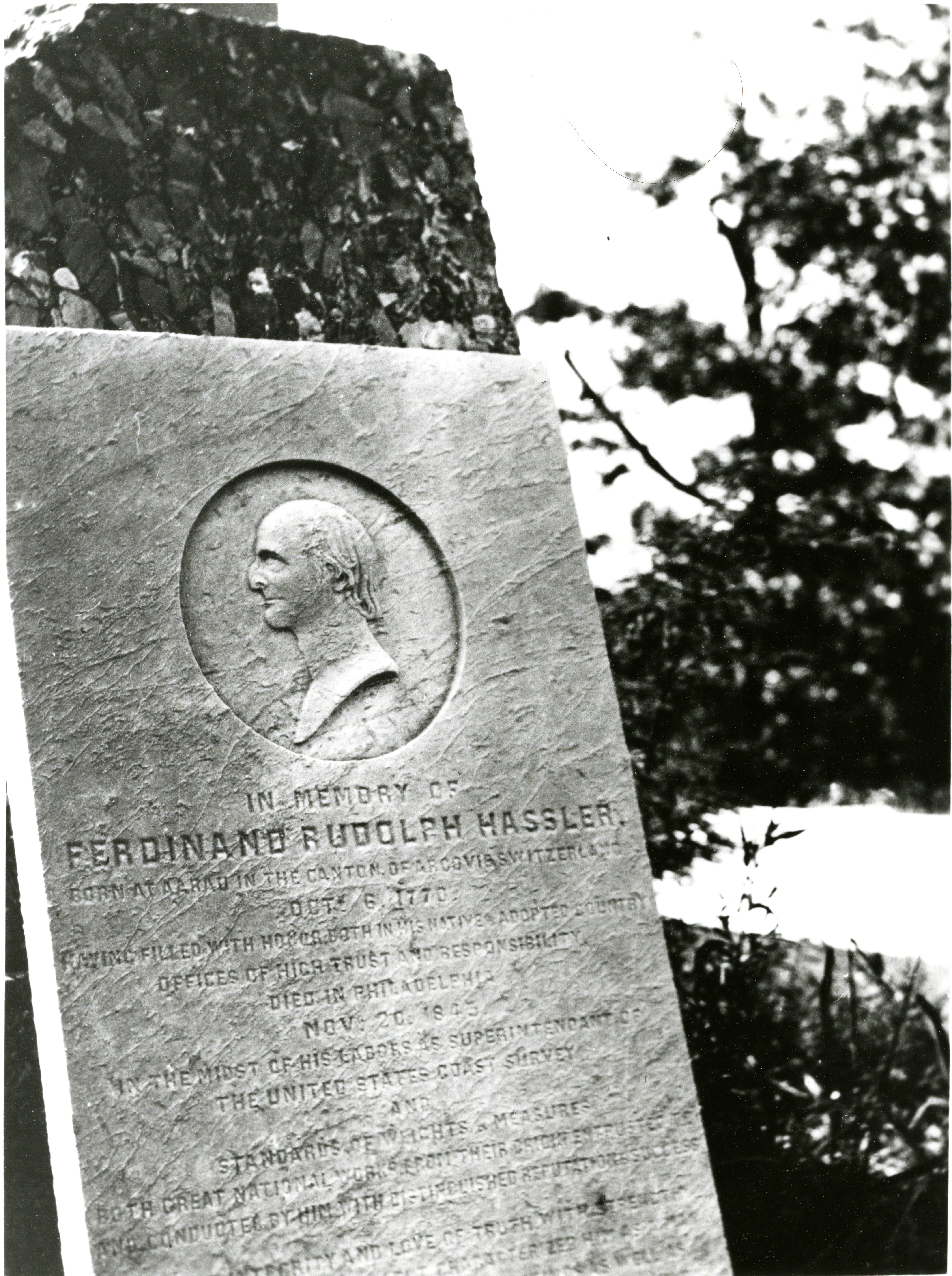 Enlarged view ofFerdinand Rudolph Hassler gravesite and memorial at Laurel Hill Cemetery in Philadelphia, PA